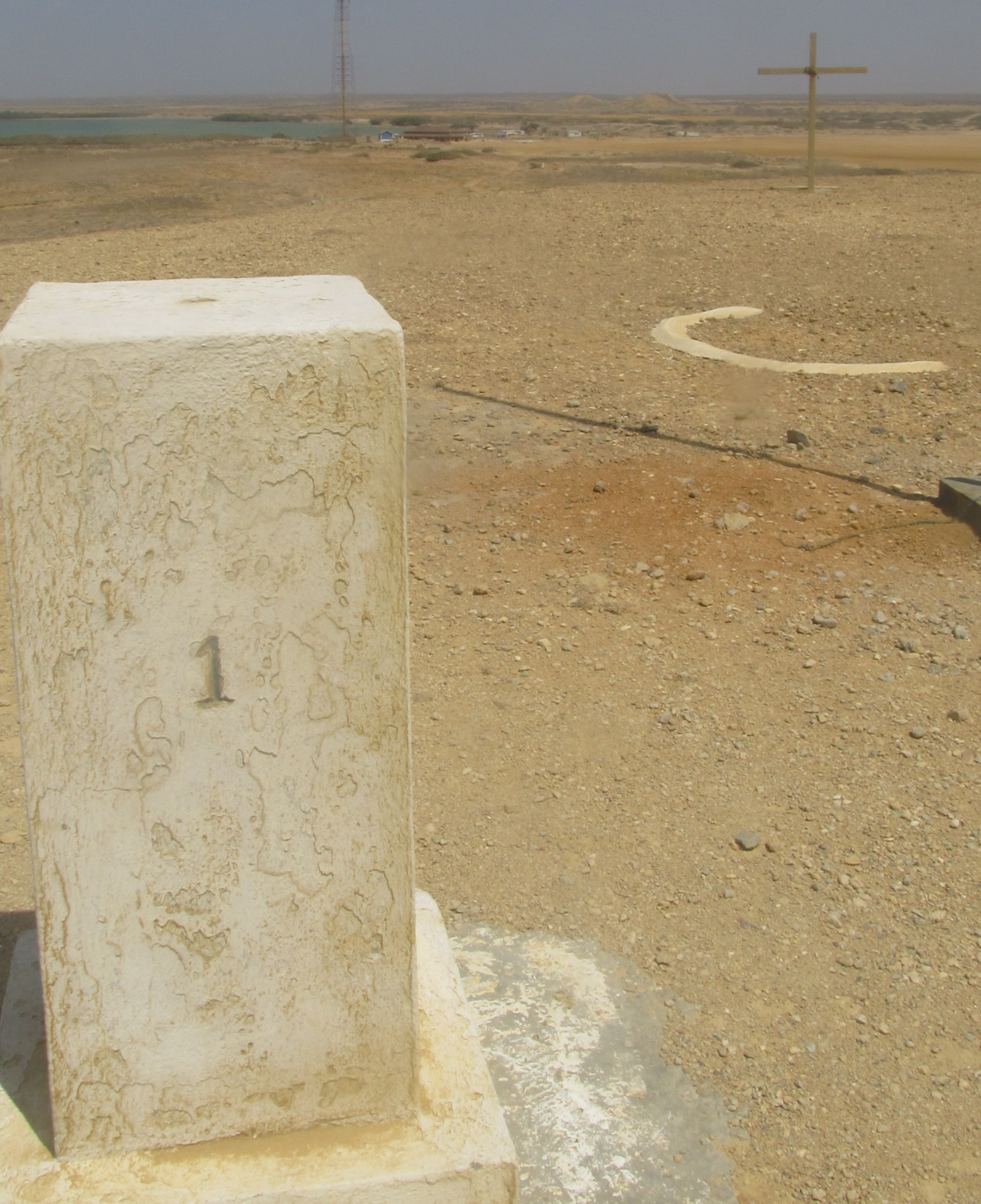 Geographic landmark corresponds to number one, it limits with Colombia to Venezuela and is located in the location of Castilletes.